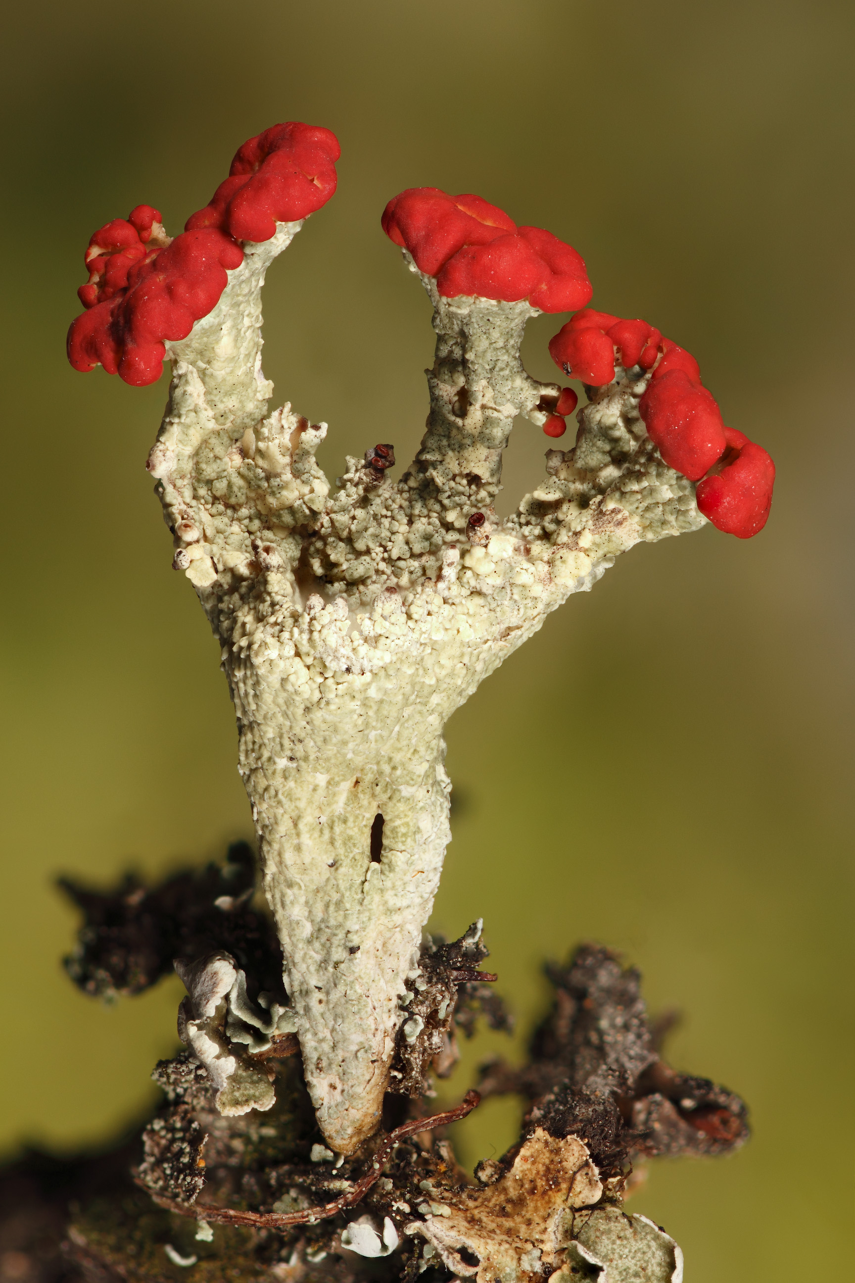 May 2nd, 2012 7:52 PM PDT Prince George, British Columbia, Canada Canon EOS REBEL T2i 100mm focal length 1/160th of a second, f/3.2, ISO 100 Approximate EV: 11 This is a Cladonia coccifera lichen found near the Prince George area. The bright red structures are called apothecia, and function in sexual reproduction by producing spores. Stack of 80 frames shot in studio using Zerene Stacker.